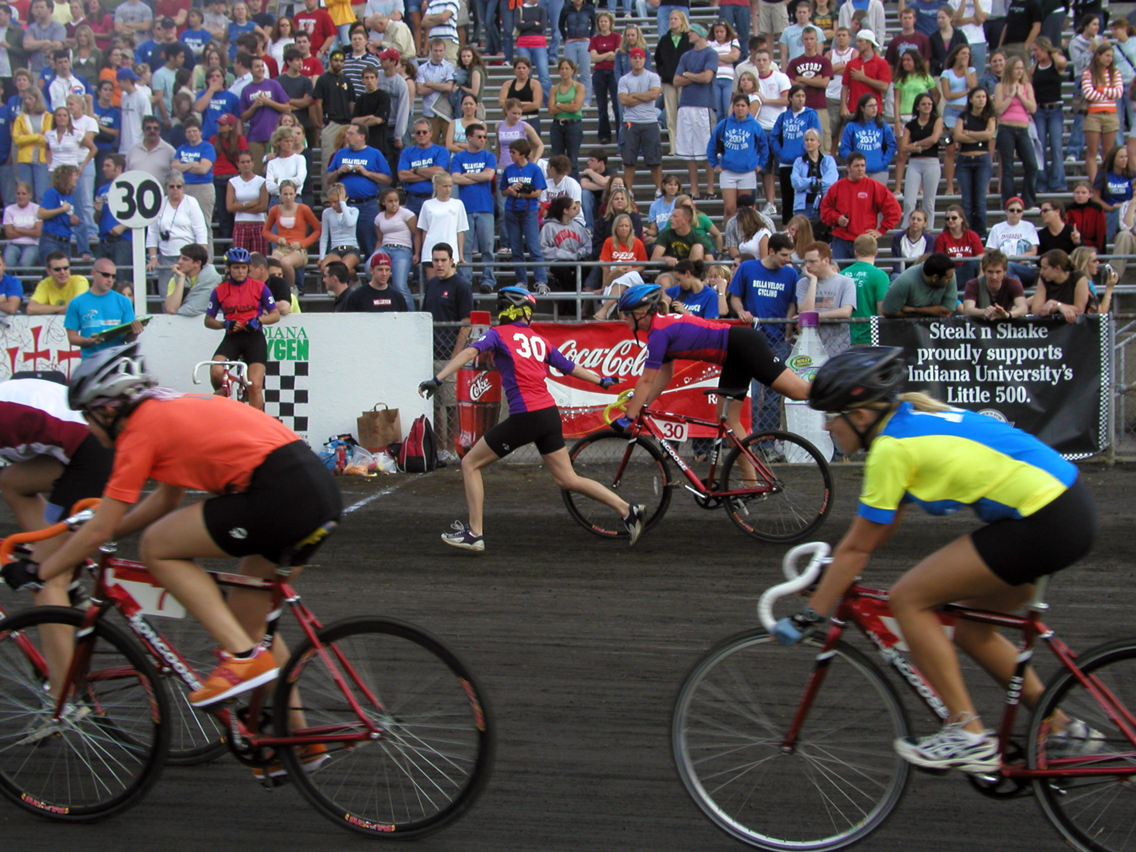 A rider exchange in progress at the 2004 Women's Little 500 at Indiana University Bloomington. Photo taken in April, 2004 by User:Durin-en